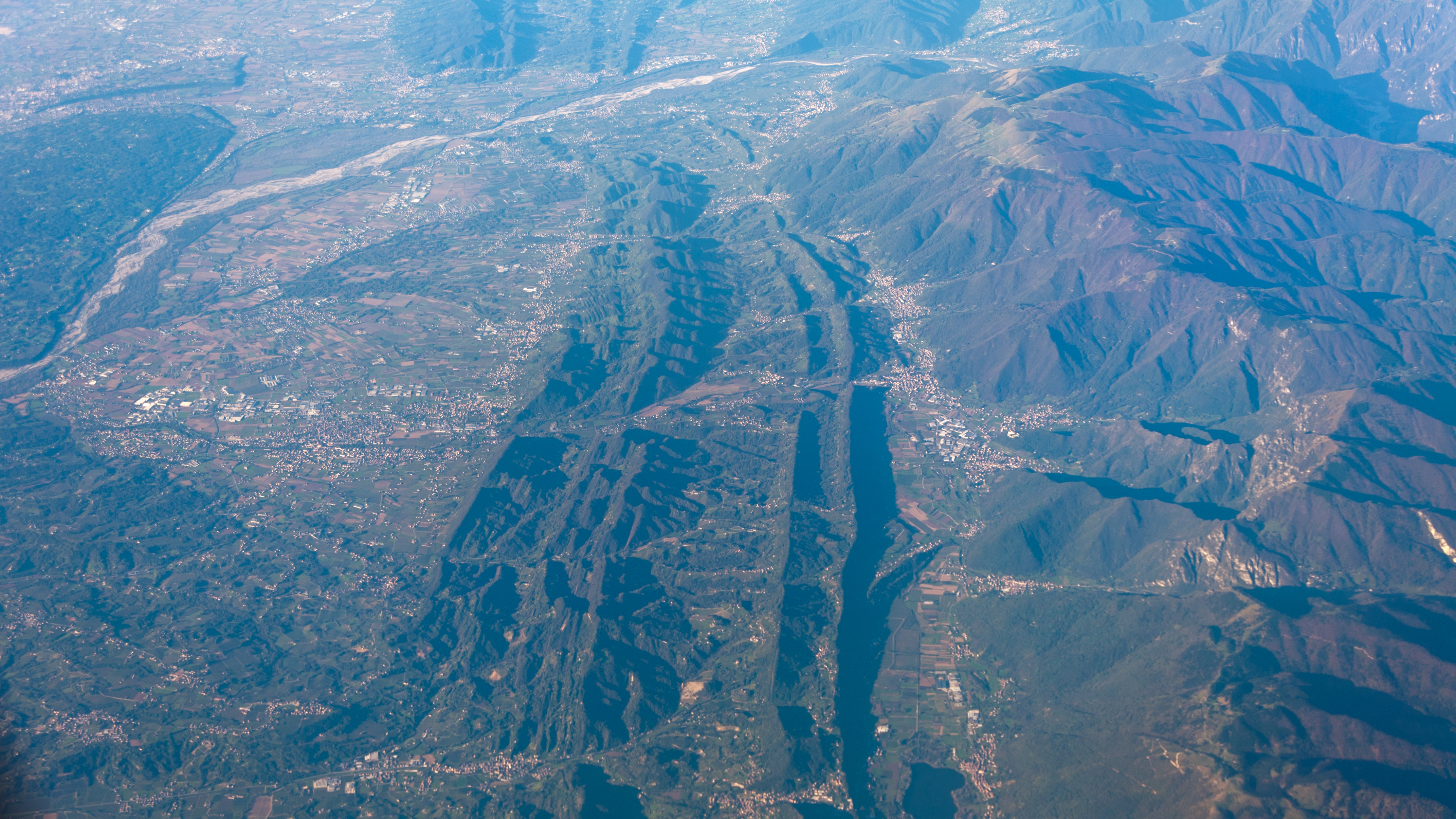 Italy, view overhead Cortina di Giais